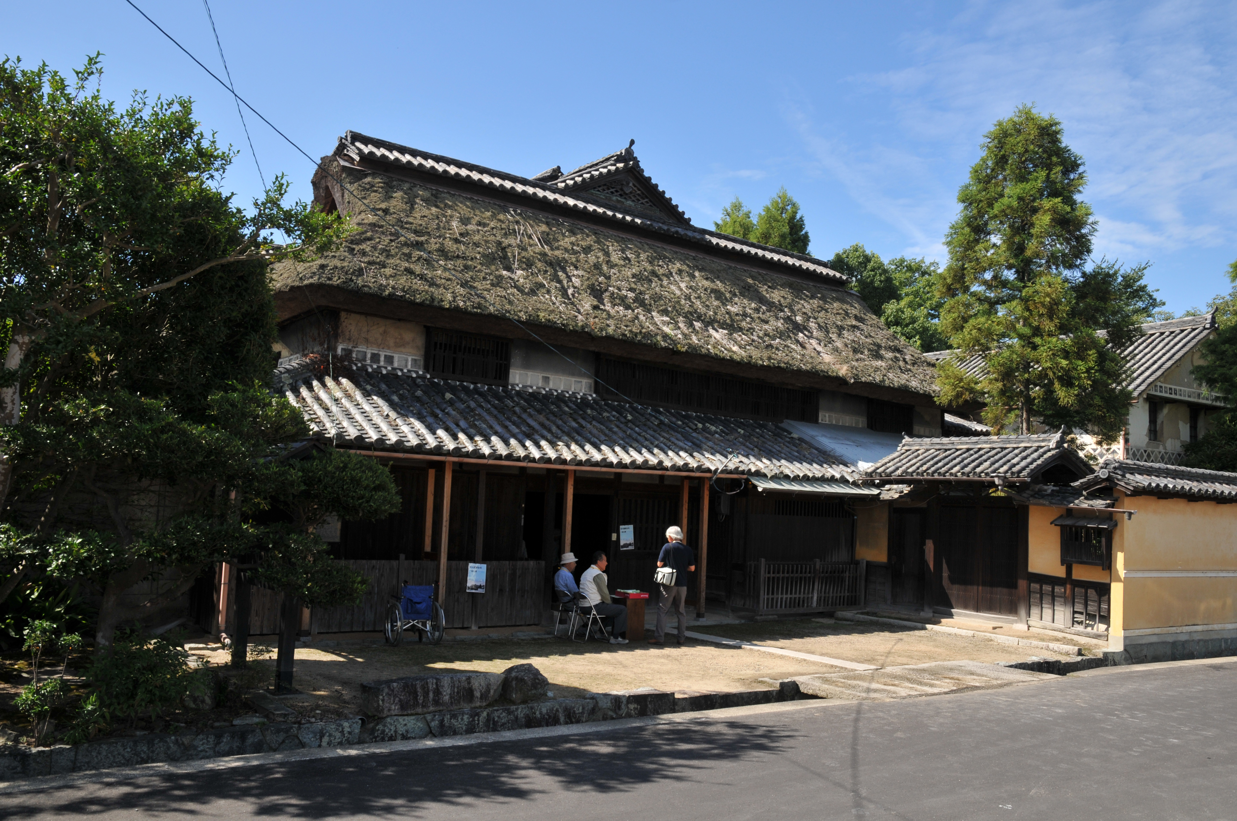 Entrance of Former Ōkuni House